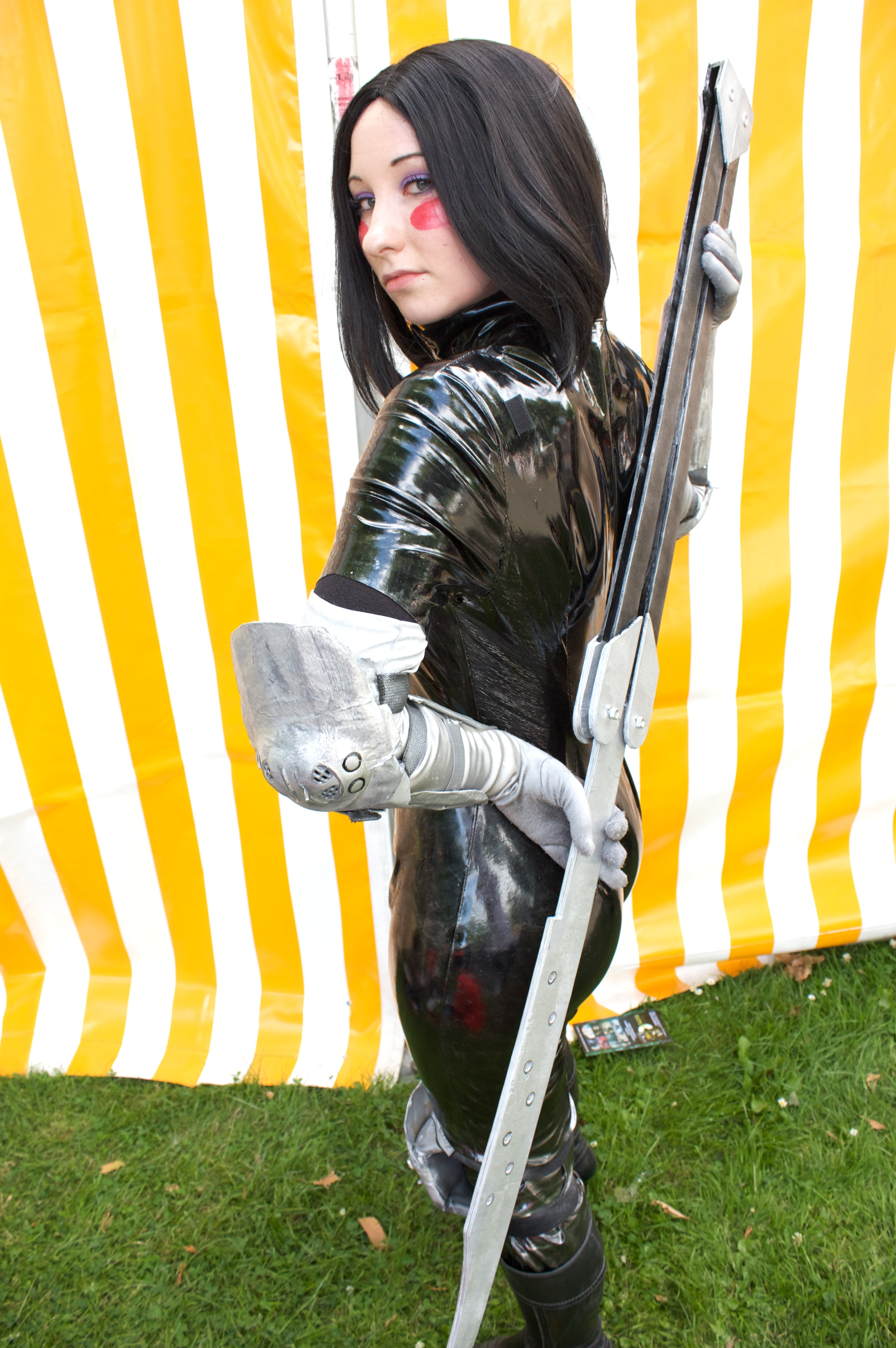 Cosplay of Gally from Battle Angel Alita, taken at Animagic 2009